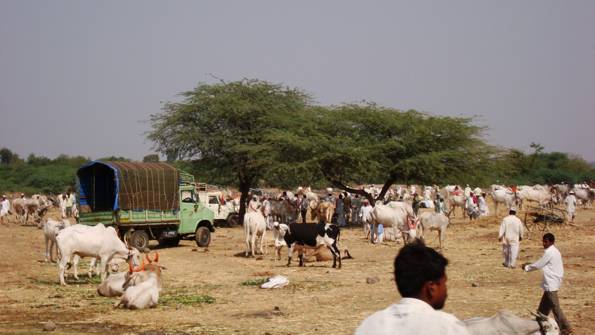 Weekly Market of Animals for buyers and sellers